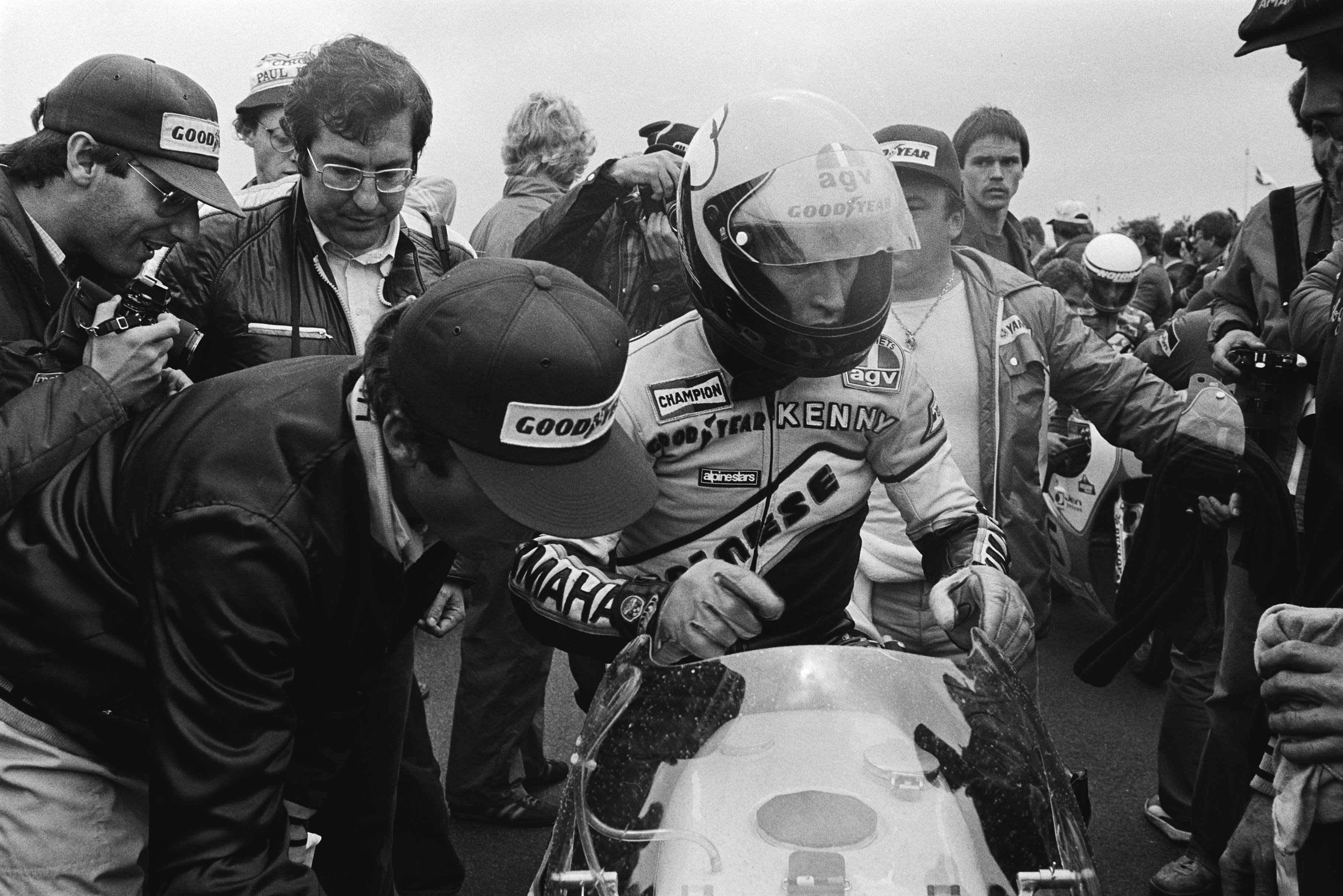 Kenny Roberts on his motorcycle at the 1980 Dutch TT